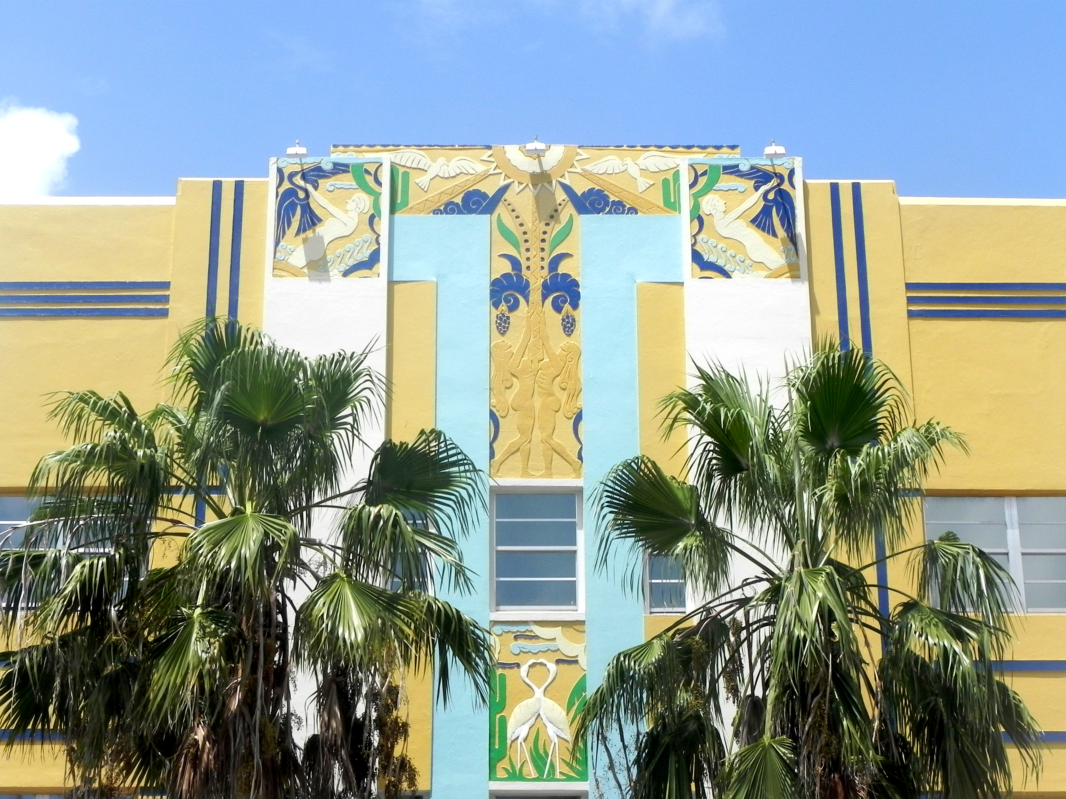 Art Déco Historic Districts - Ocean Five Hotel (detail) - Miami